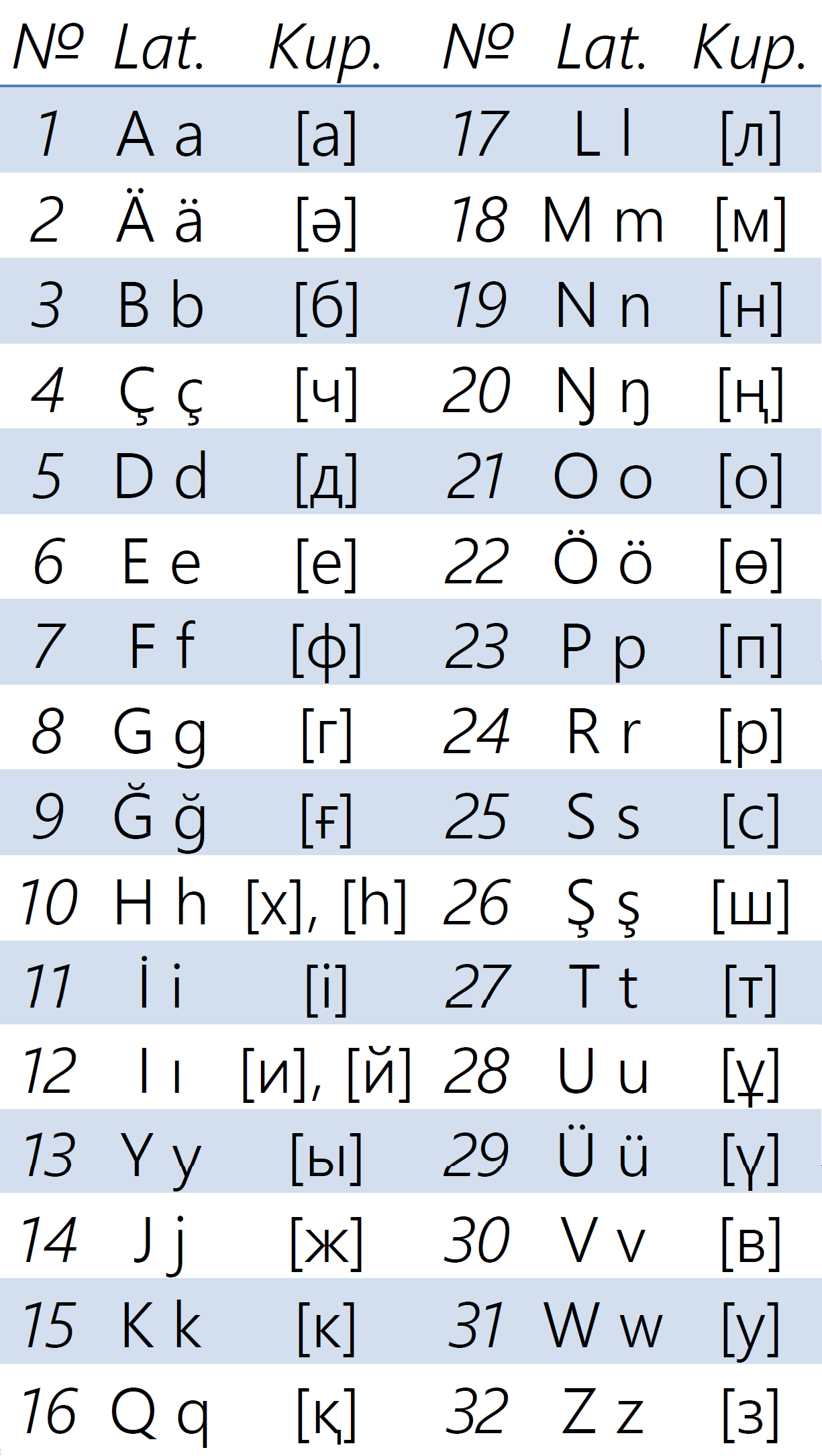 Kazakh Latin alphabet, version presented on November 6 2019 by scientists from the Baitursynov Institute of Linguistics (description)